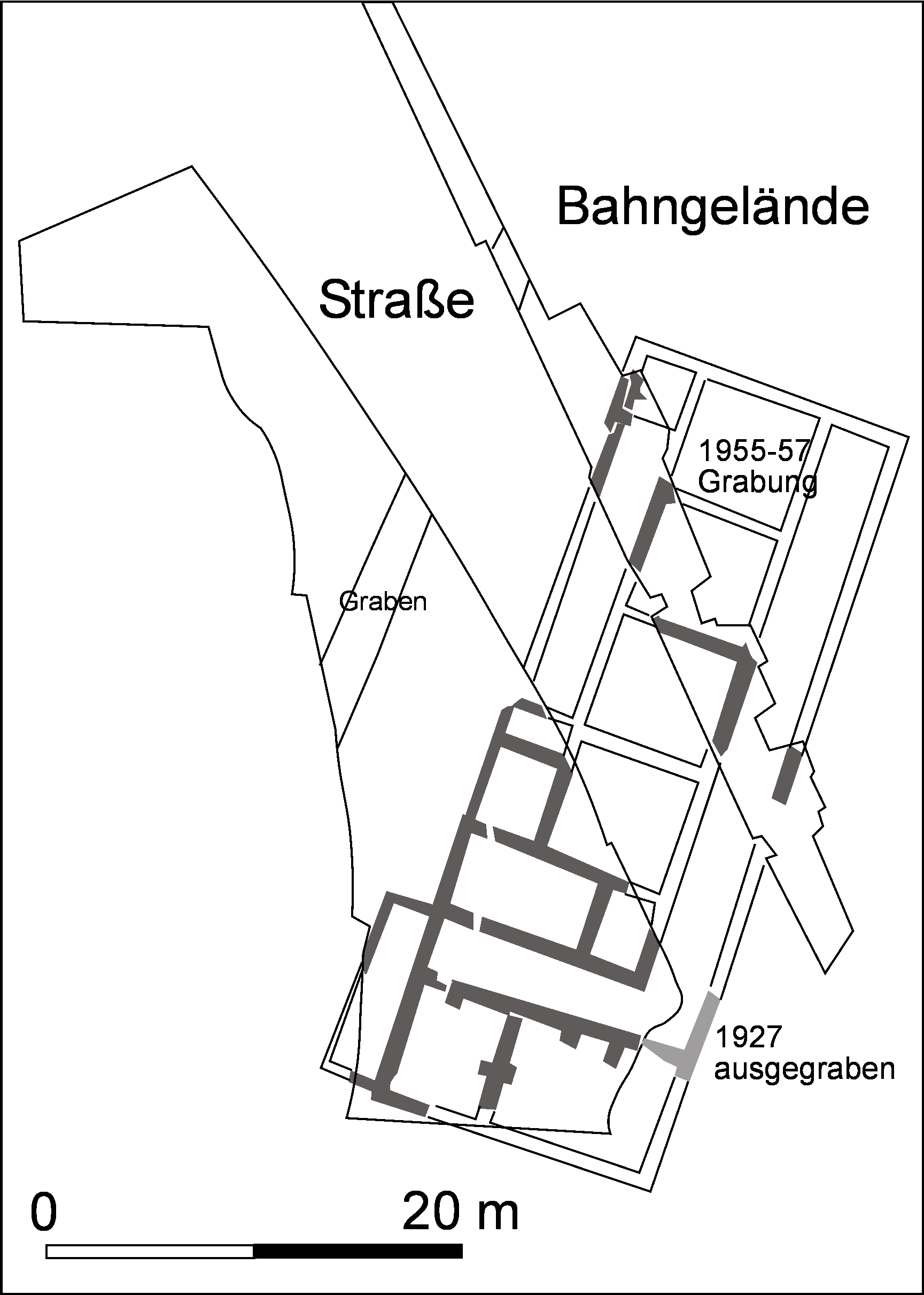 Pan of the excavations of the villa at Crofton, Orpington